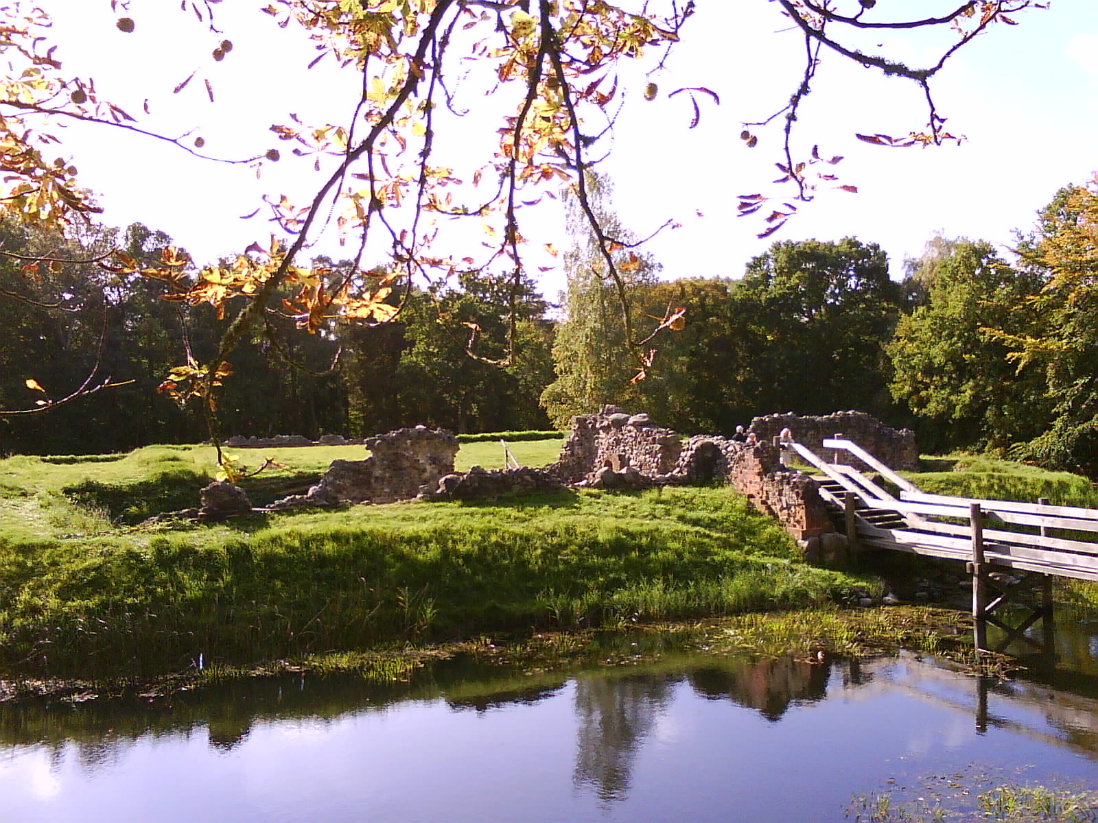 Ruins of Asserbo castle, North Zealand, Denmark